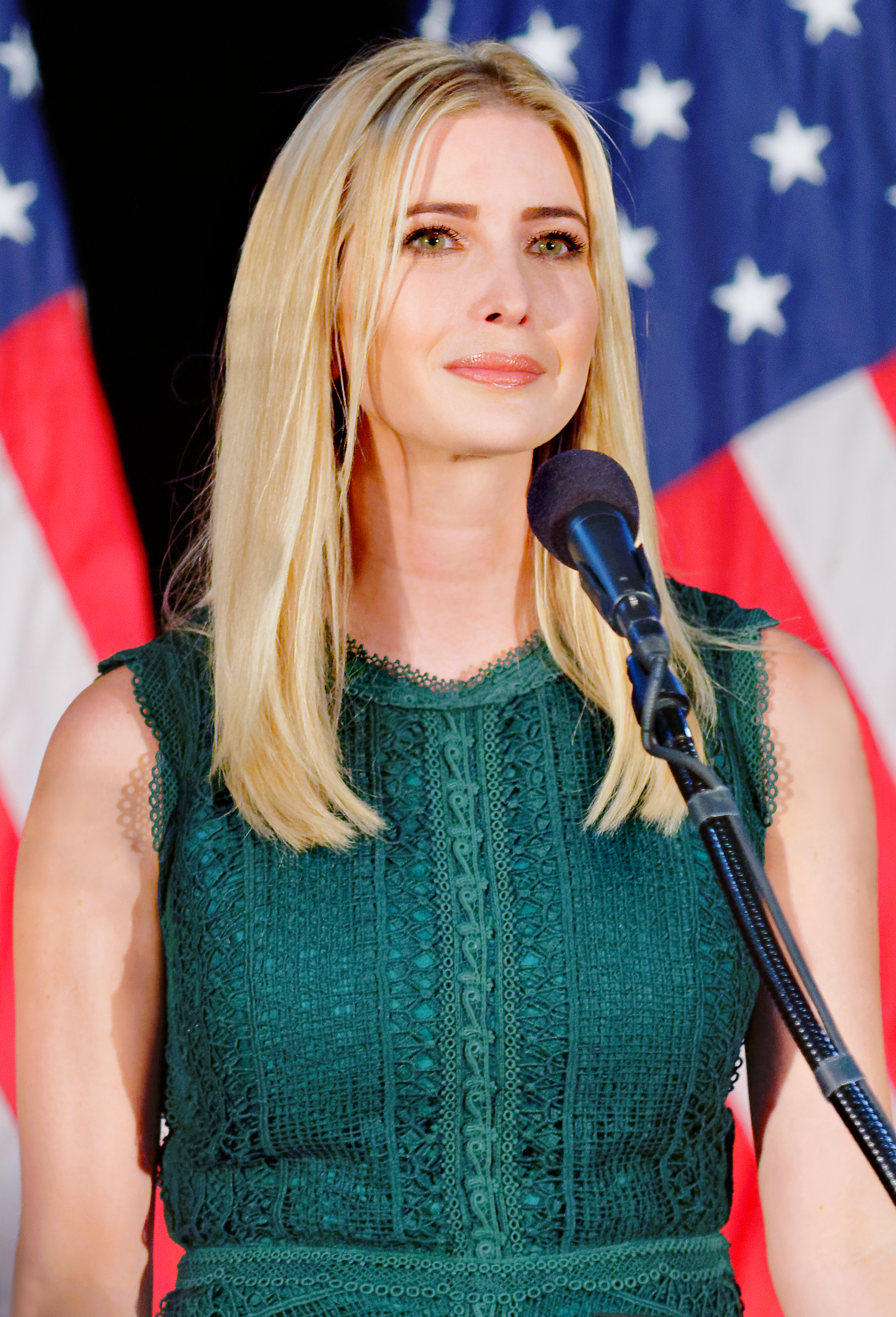 ASTON, Pa. Donald Trump unveils child-care policy influenced by Ivanka Trump.